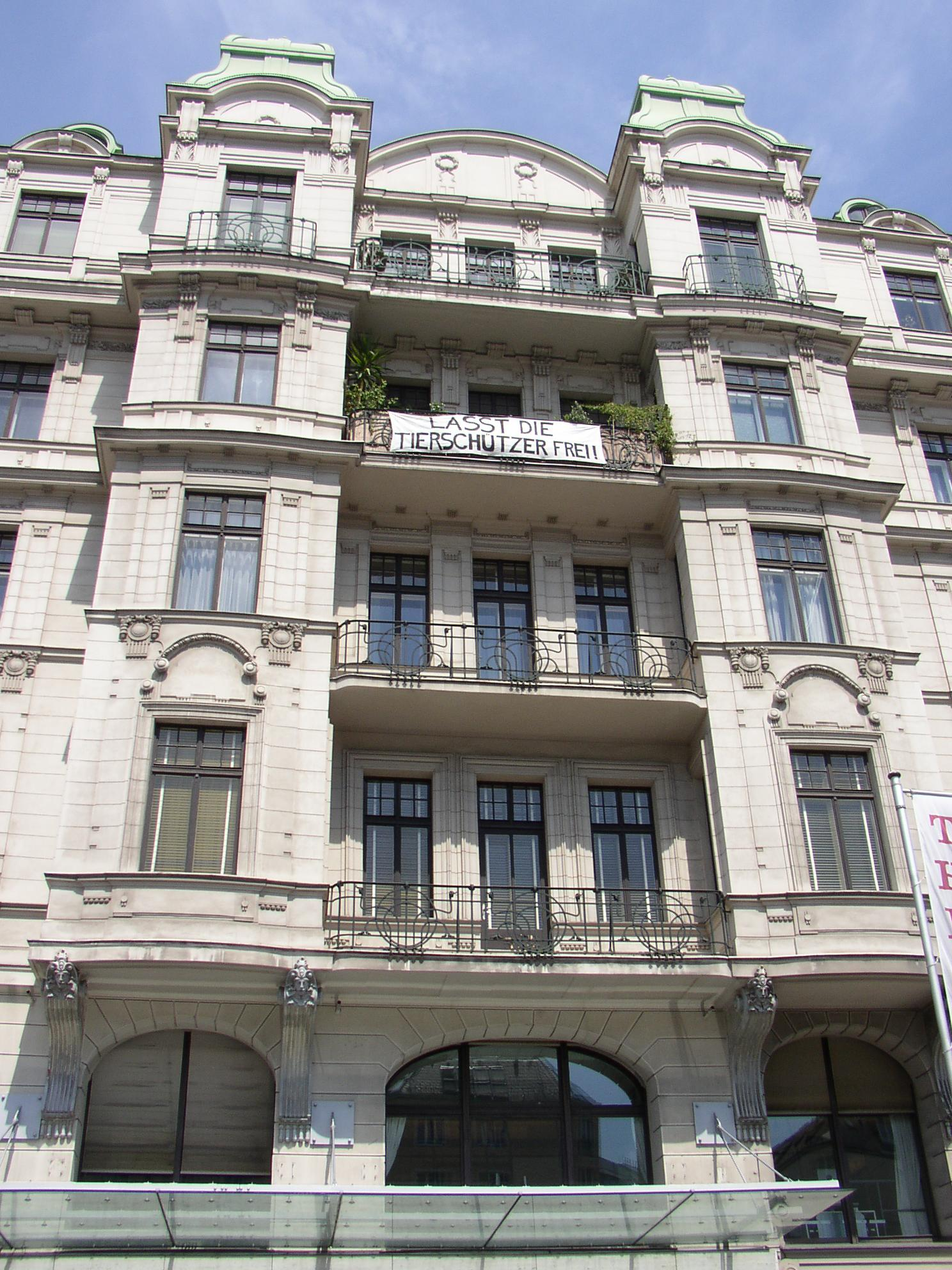 The Theatre on the Wien River in Vienna, Austria